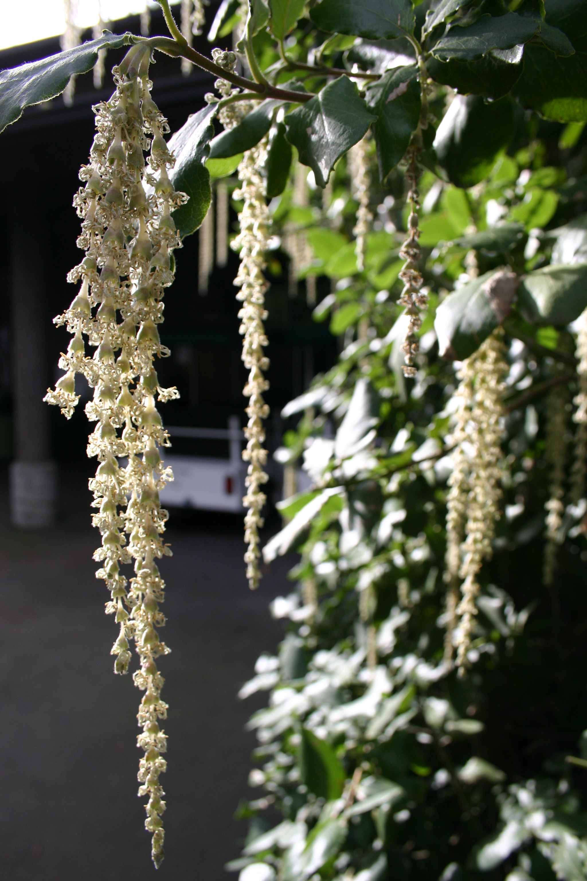 Garrya catkins in February at Woodland Park Zoo, Seattle.